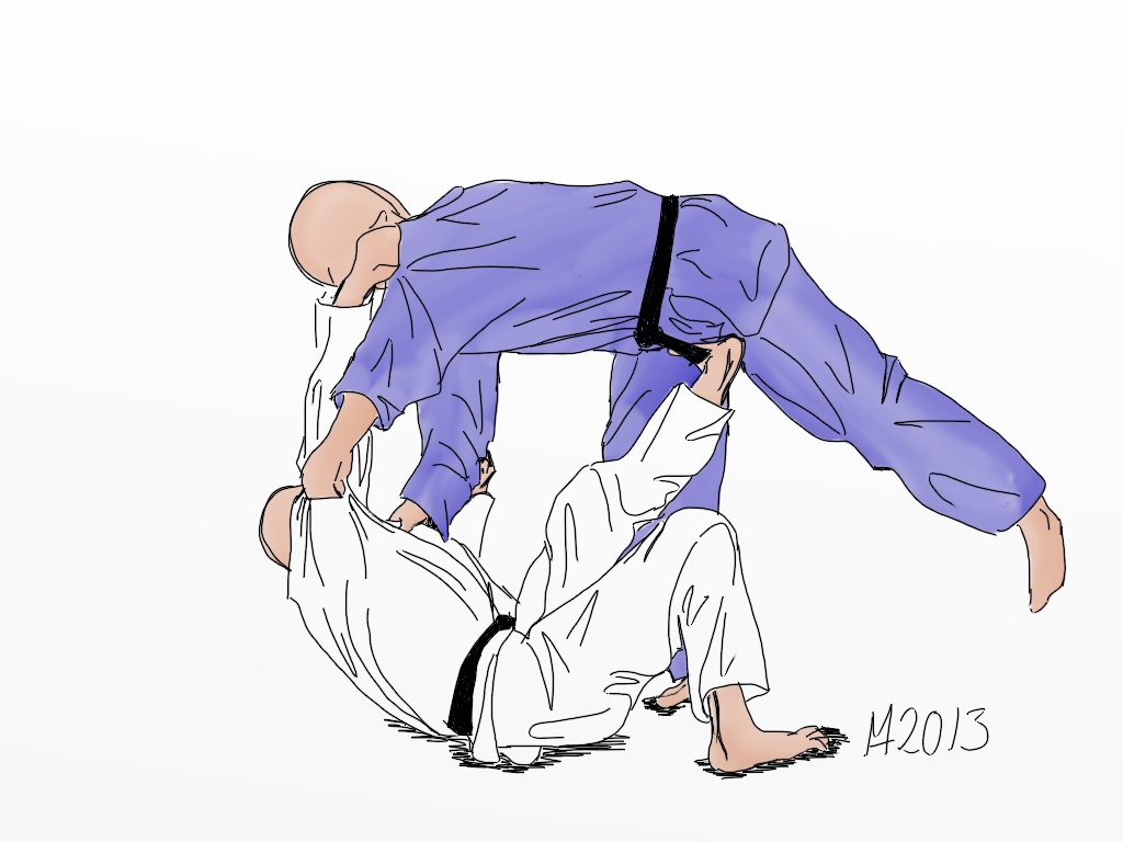 Free to use under the creative commons license with proper attribution.